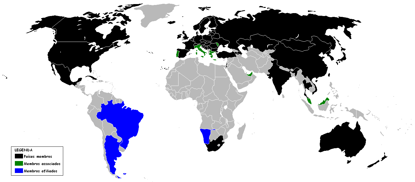 A map of the IIHF members, in portuguese language.